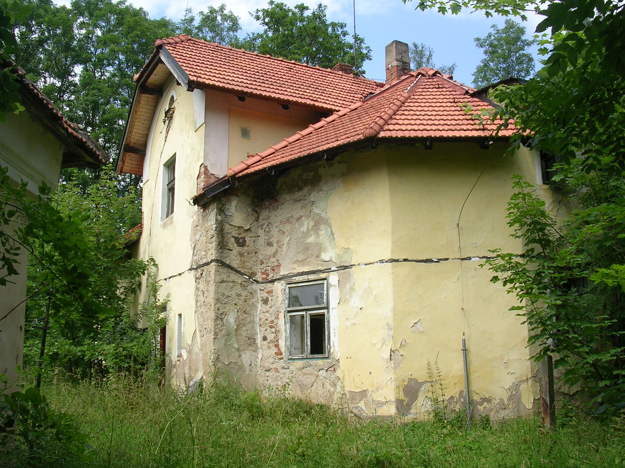 Vysoký Chlumec, Příbram District, Central Bohemian Region, the Czech Republic. Desert of St Mark, a keep house converted from a chapel.